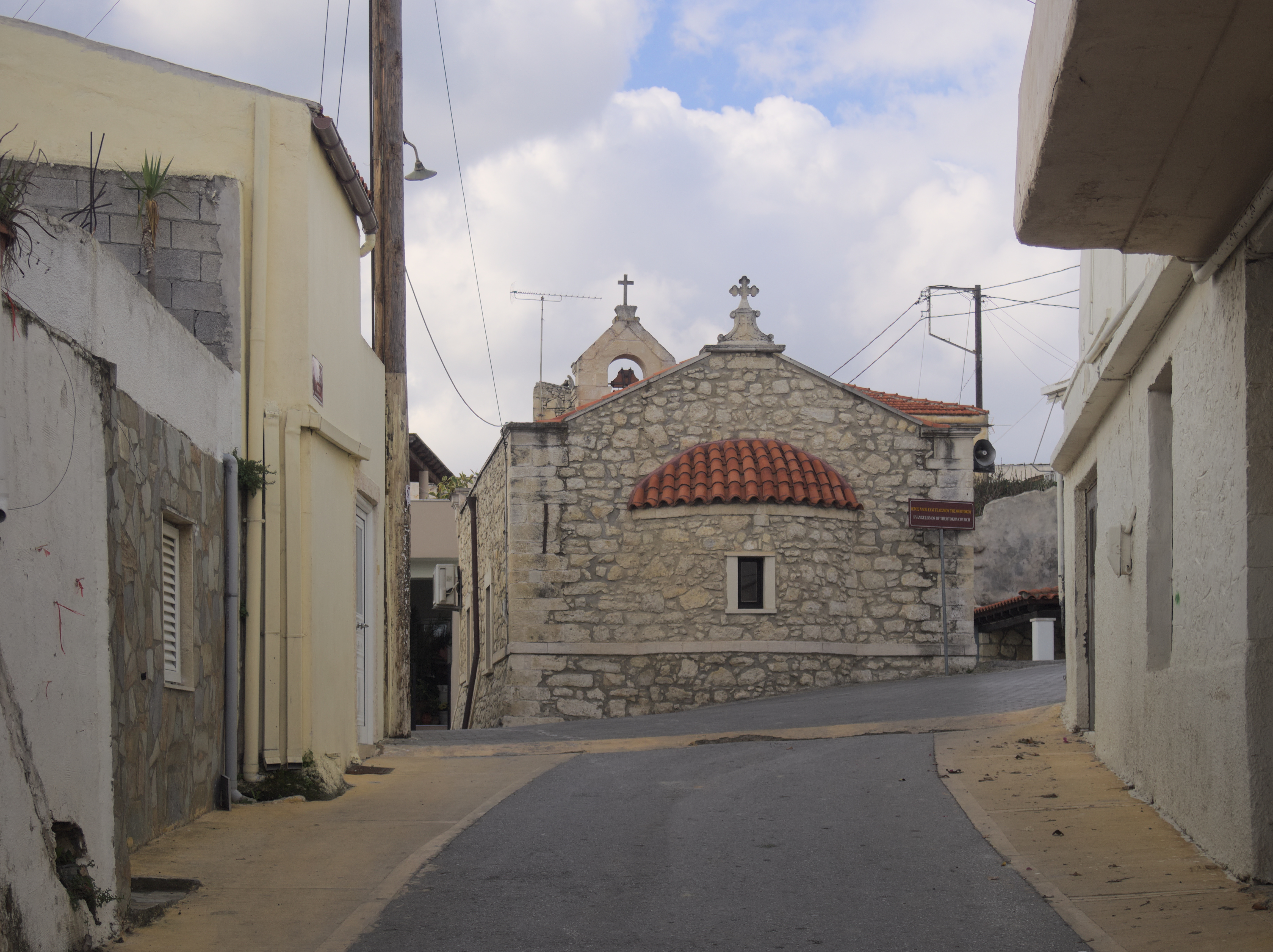 The church of Evaggelismos of Theotokos at Myrtia, Archanes-Asteroussia.